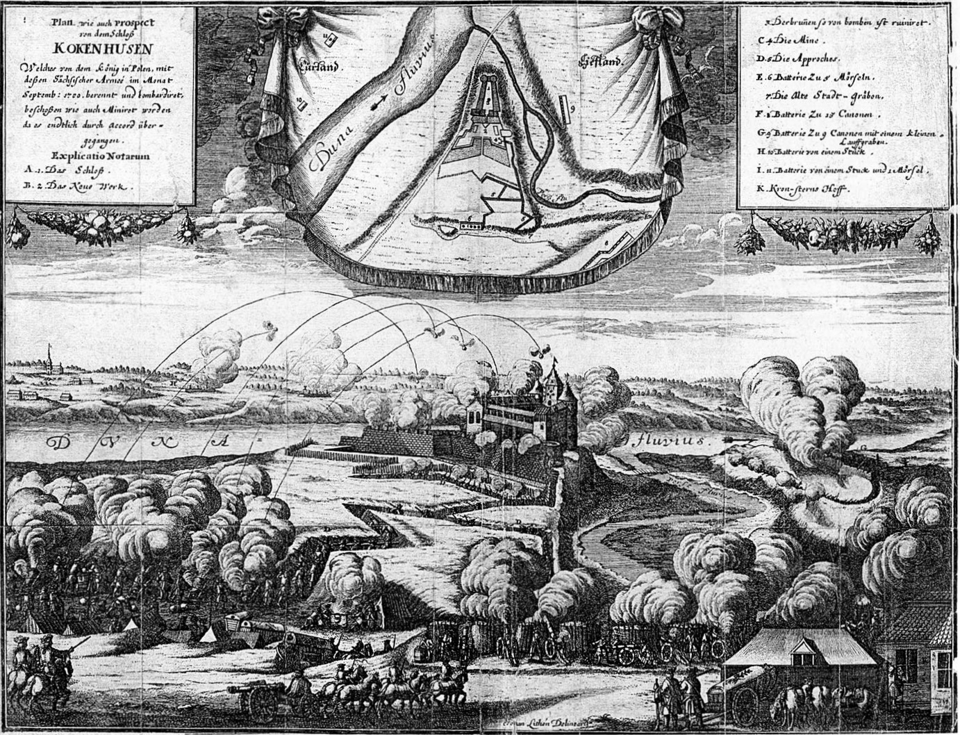 A battle in Koknese on September 1700. This is a black and white version, the other is in sepia. Made by Johan Lithen